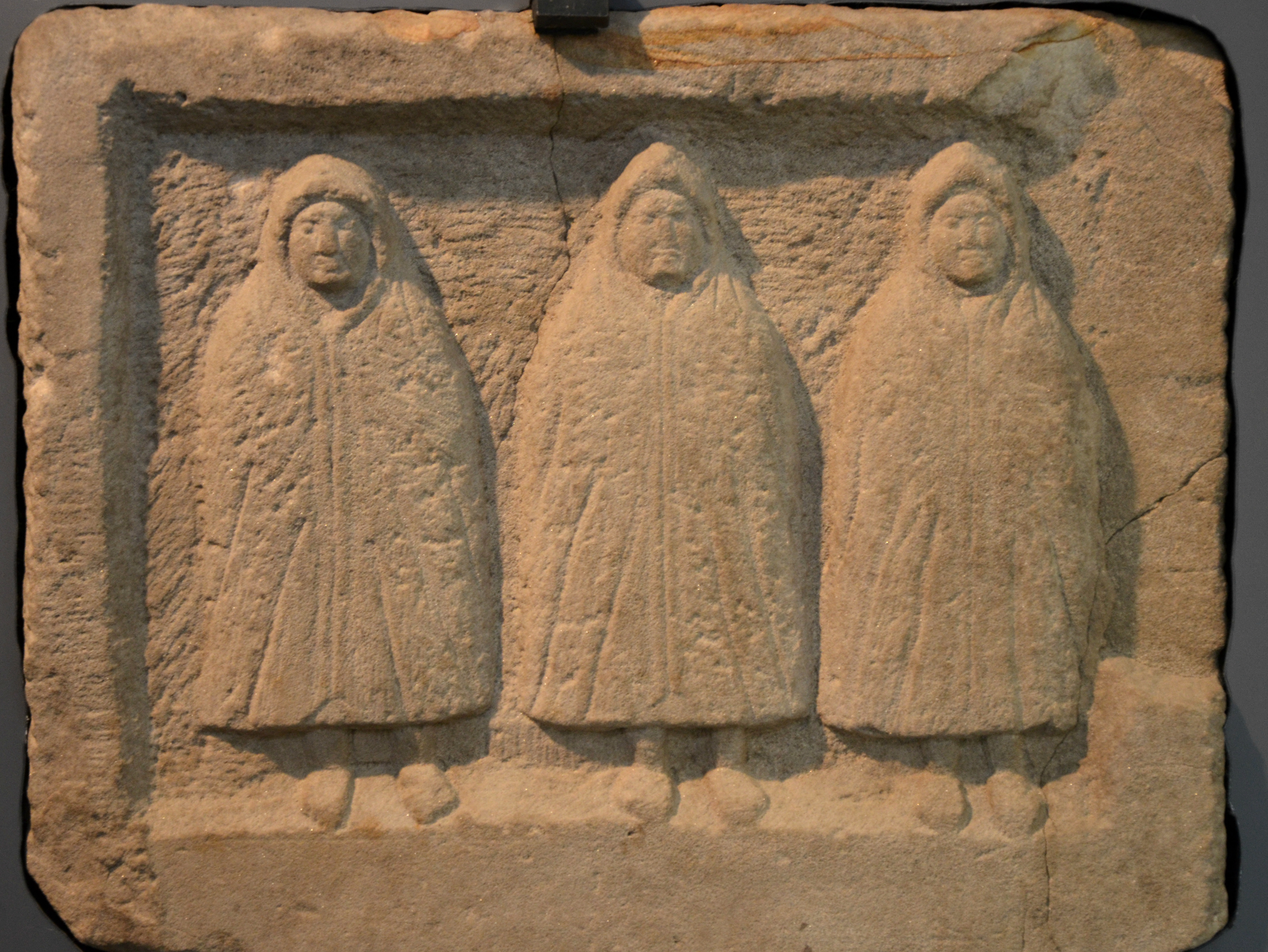 Date: Roman, c.225-50 AD Type: Religious relief Material: Local buff sandstone Place Made/Found: Built into a niche in a building in the settlement outside Housesteads Roman Fort in 1933 These 'genii cuculatti' (hooded spirits) are wearing the cucullus, a hood attached to the cloak. Their cloaks may be the 'birrus Britannicus', the woollen cloak that Britain was famous for exporting across the Empire. A genius is a spirit, and there could be genii of certain places, or activities. These Celtic deities were associated with fertility and prosperity.